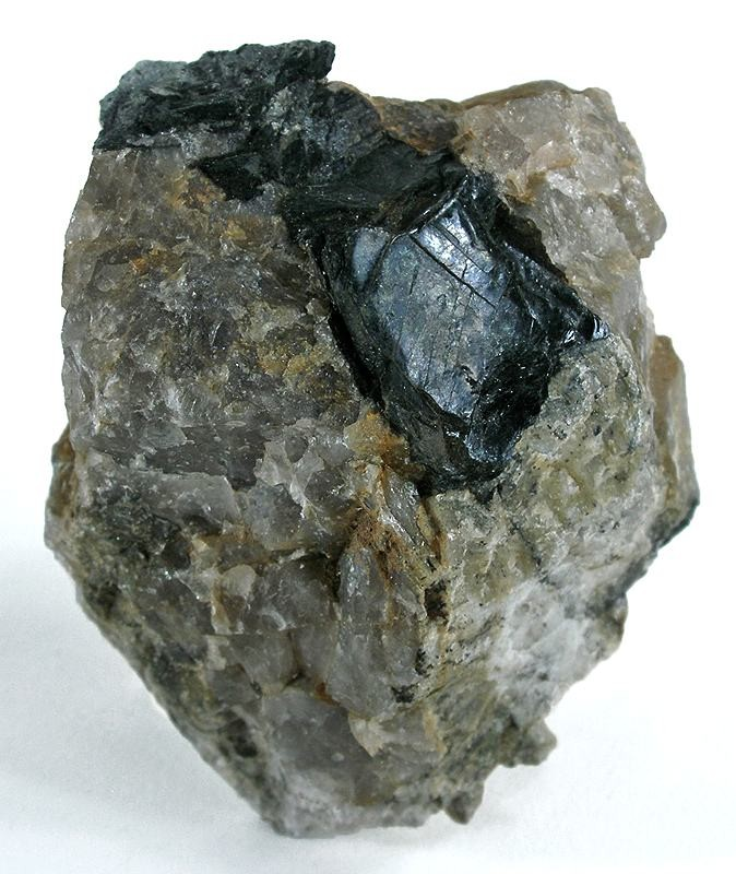 Annite Locality: Rockport, Essex County, Massachusetts, USA (Locality at ) Size: 6.8 x 5.4 x 4.6 cm. According to MINDAT this is a very rare member of the Mica Group in the Biotite-Phlogopite Series. Regardless, it’s the most oddly crystallized mica I have seen. It looks more like a dark phosphate than a mica. From the TYPE LOCALITY where it was first noted in 1868. Ex. Academy of Natural Sciences Philadelphia Collection.